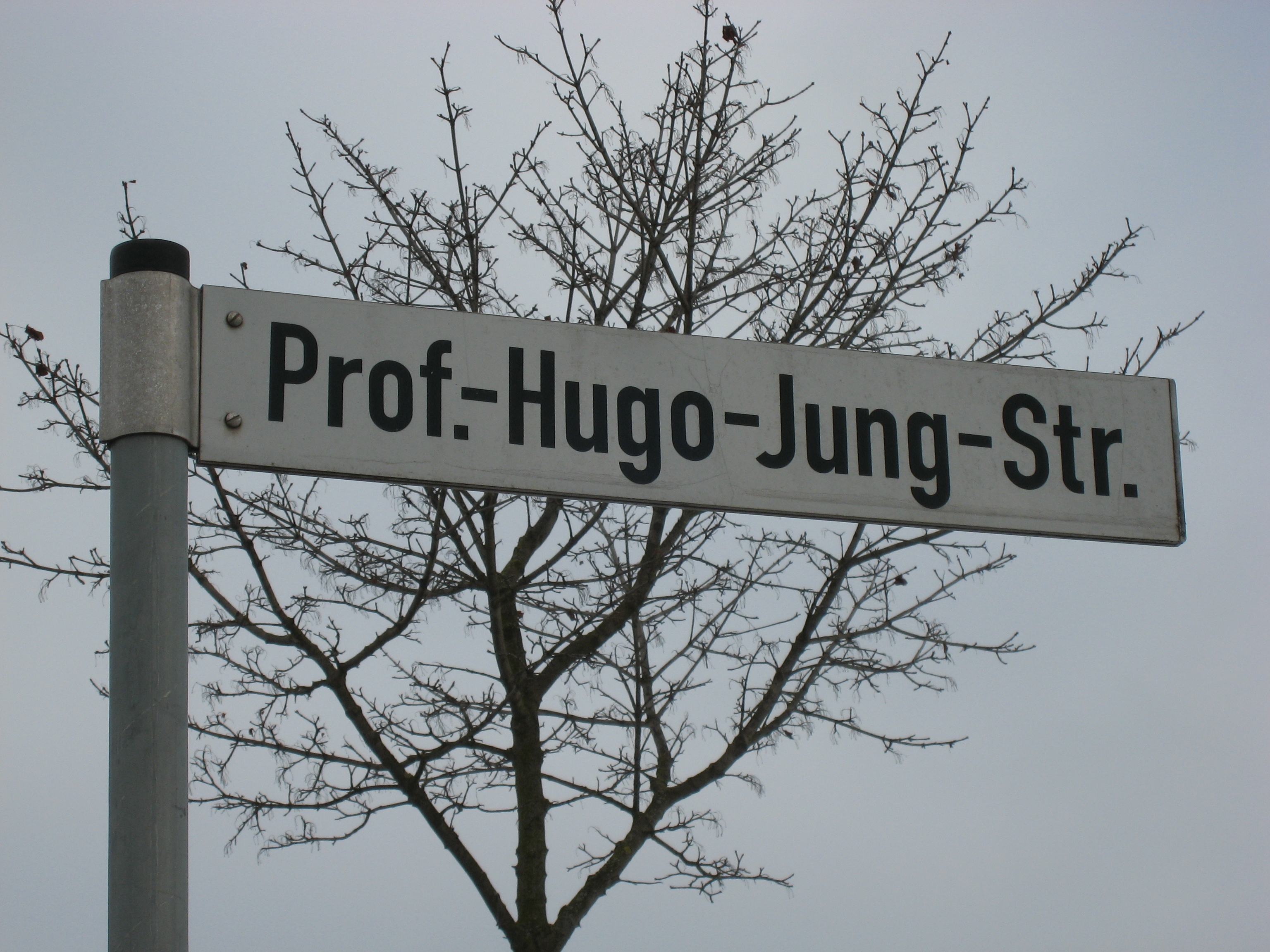 Professor Hugo Jung Straße Arnstadt